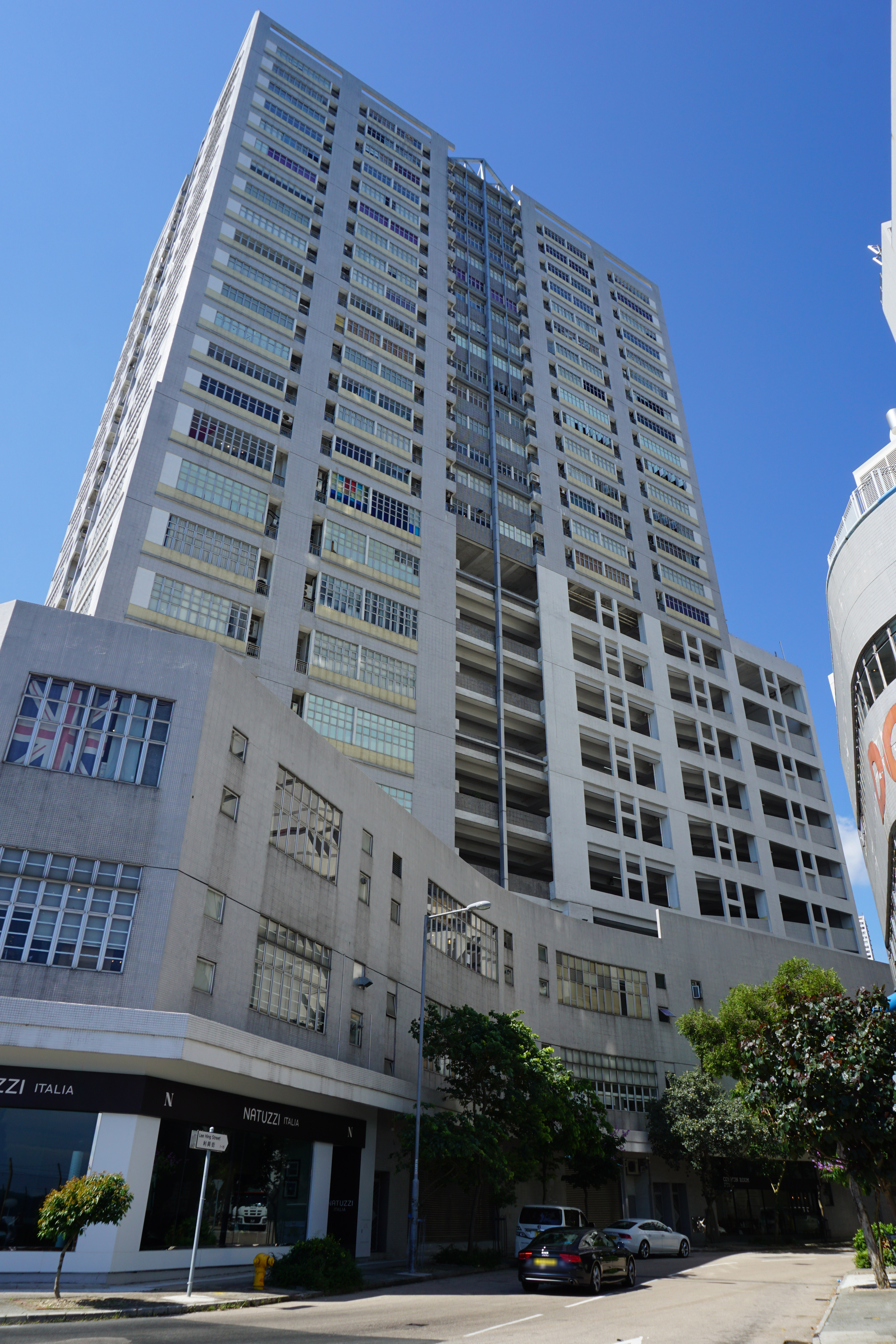 Horizon Plaza in Ap Lei Chau, Hong Kong.